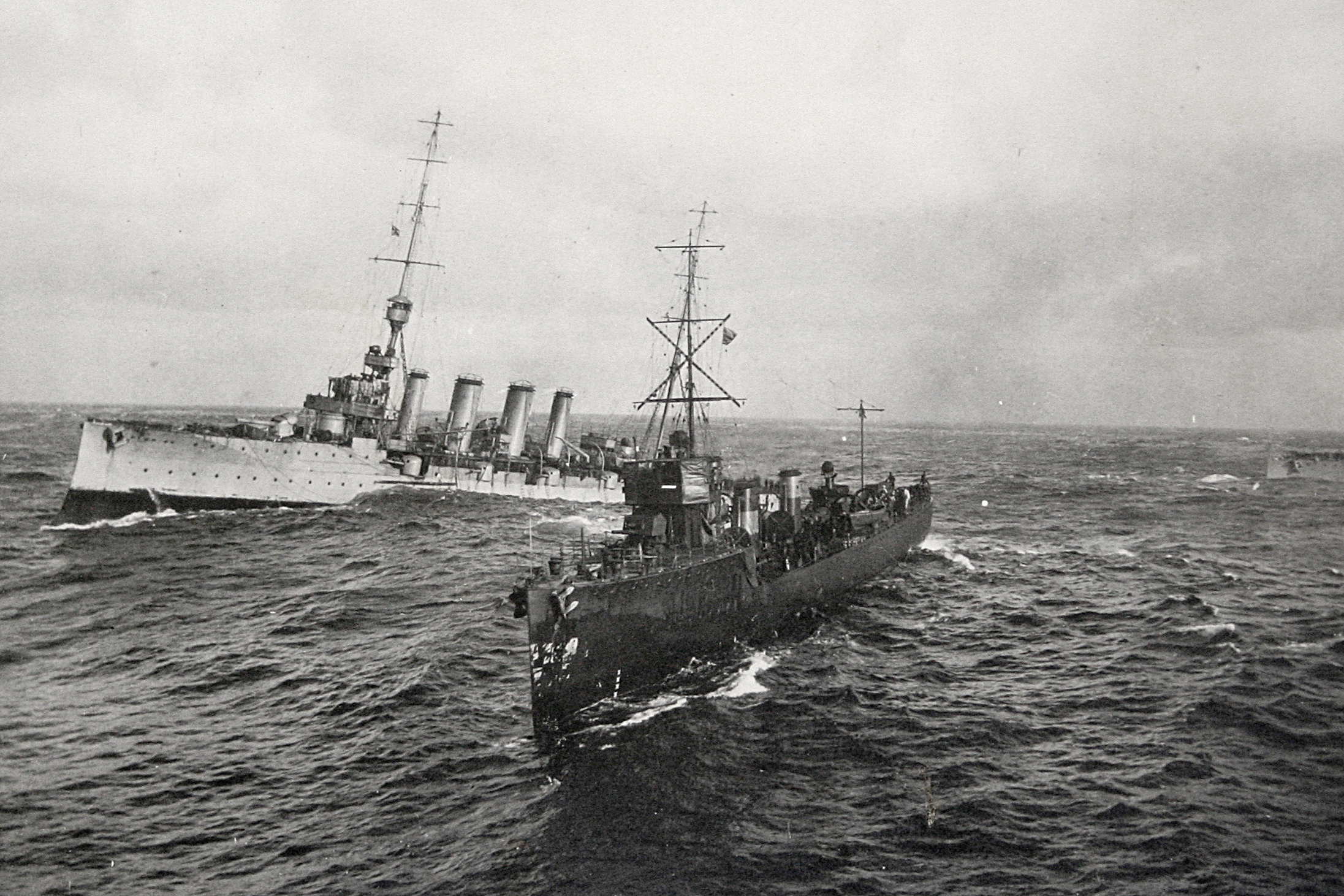 View from the passenger decks of RMS Olympic as the light cruiser HMS Liverpool (left) strains to tow the sinking HMS Audacious (bow seen on right), dated October 26 (sic) 1914. The destroyer HMS Fury, dark vessel, in foreground.